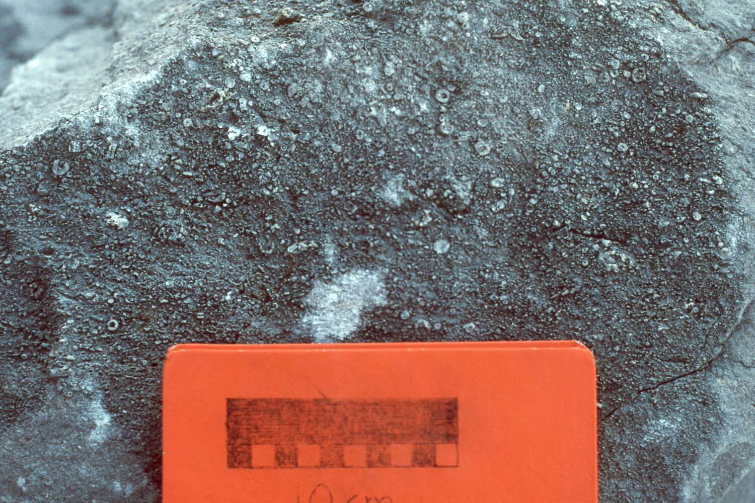 Crinoid fragments in the Silurian-Devonian Keyser Formation, Old Eldorado Quarry, at Mile Marker 30 along Interstate 99/US220 in Blair County, Pennsylvania south of the Plank Road Exit on the east side of the road. Scale bar is 10 cm. Taken 2003.